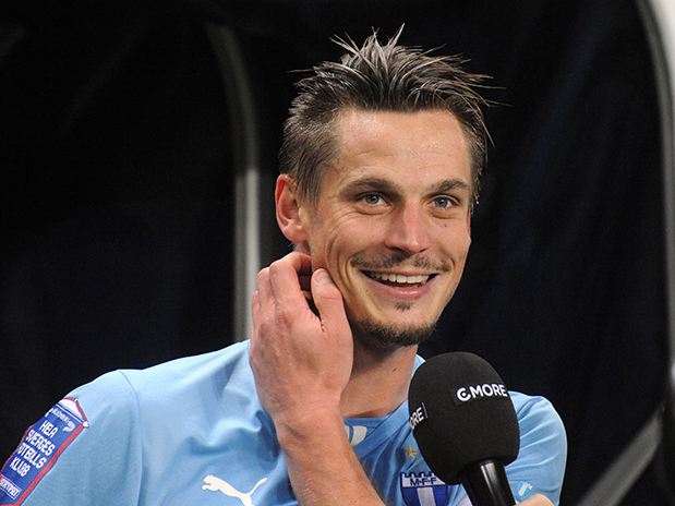 Markus Rosenberg after the winning of 2014 Swedish championship (interview after the match AIK-Malmö FF).